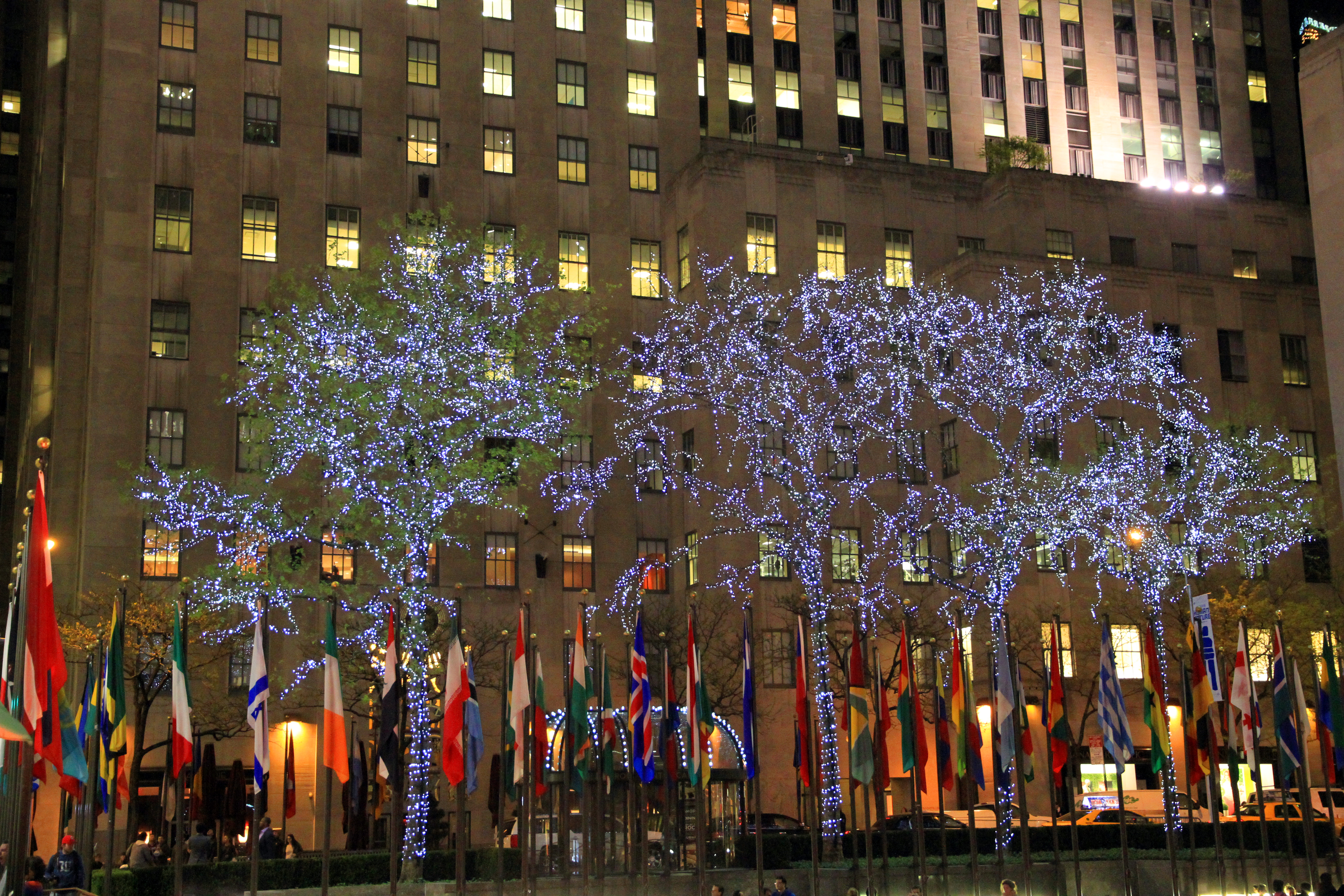 Rockefeller Plaza